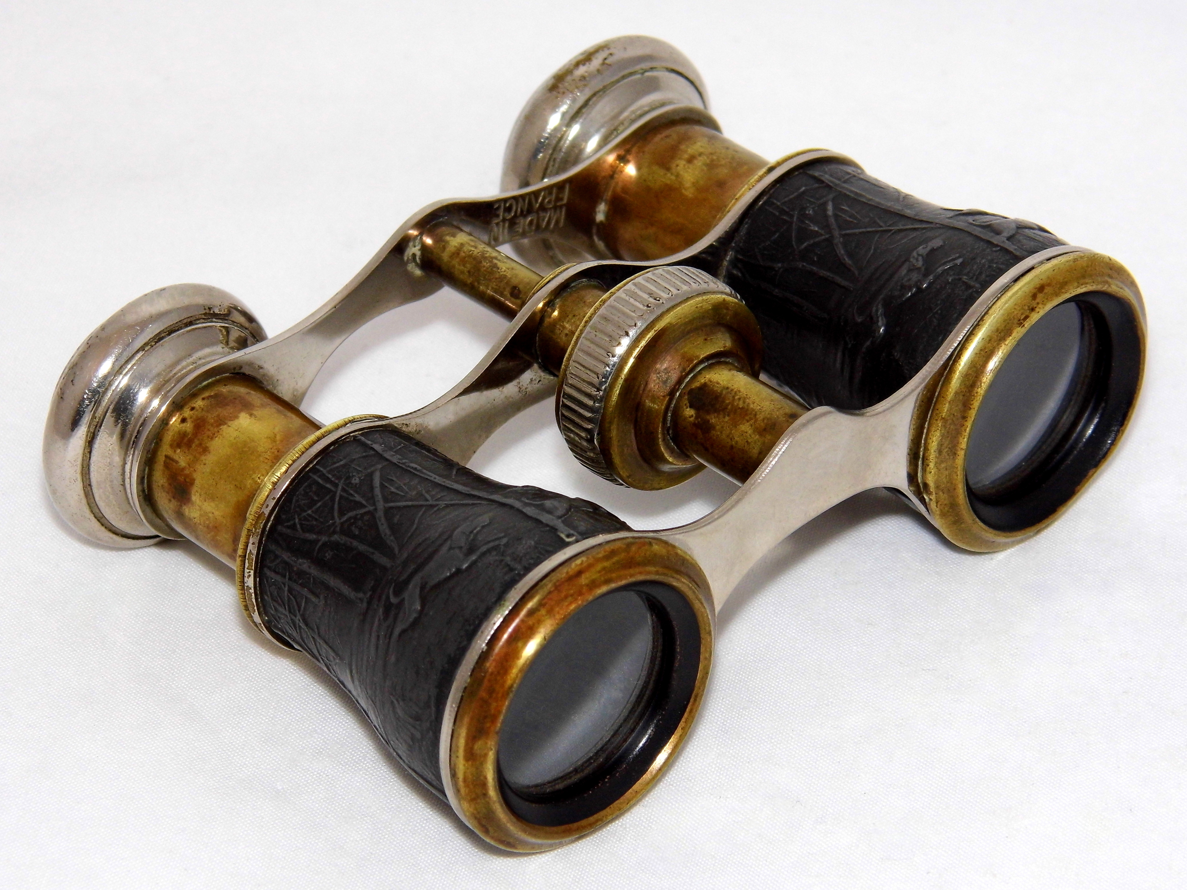 Antique Chevalier Opera Glasses With Hunting Scenes On The Barrels, Made In France